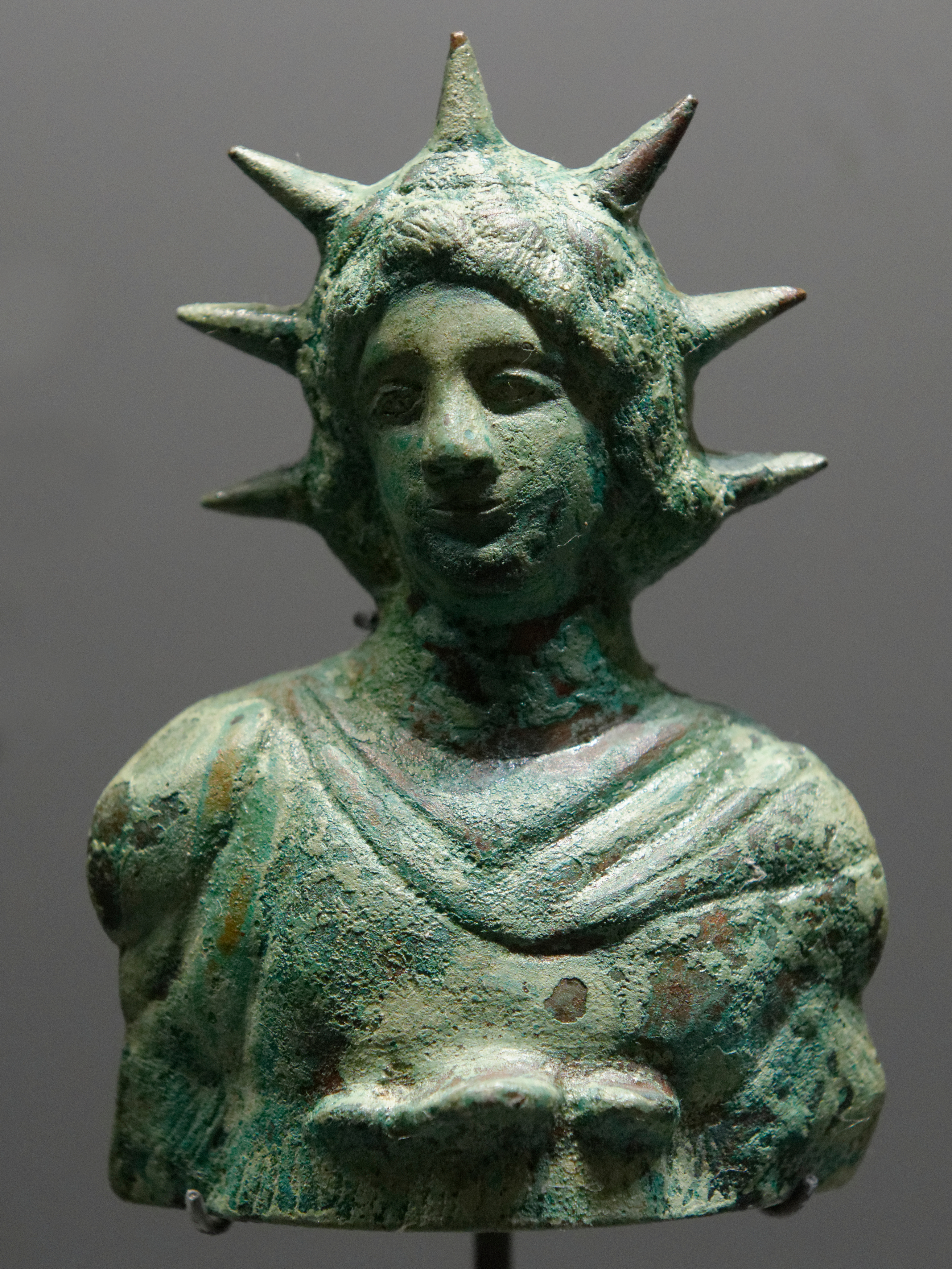 Bust of Helios, radiate (seven rays), with long hair, wearing the chlamys. Perhaps a portrait of Alexander the Great.